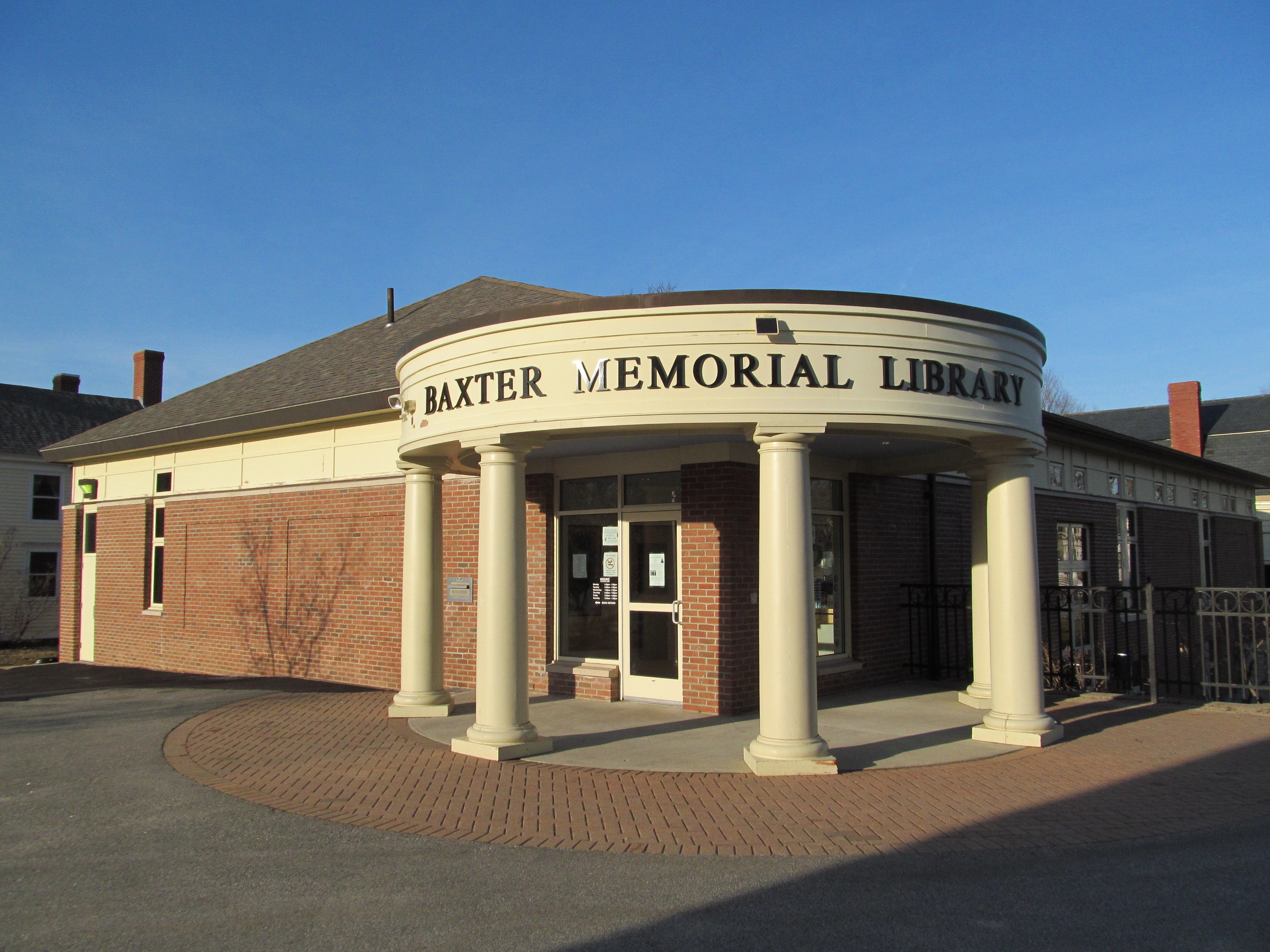 Baxter Memorial Library, Gorham Maine - 2012